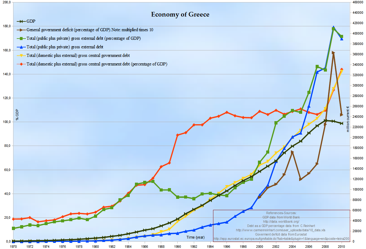 Hellenic Economy: Chart of Greek GDP, Total (Domestic plus External) Gross Central Government and Total (Public plus Private) Gross External Debt, and General Government Deficit, beginning for some timeseries from 1970 and ending for all in 2010.GDP in current euros;Debt both as a GDP percentage and in current euros;Deficit as a GDP percentage.